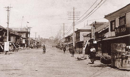 Sakaecho in Ootomari(Korsakov Корсаков)